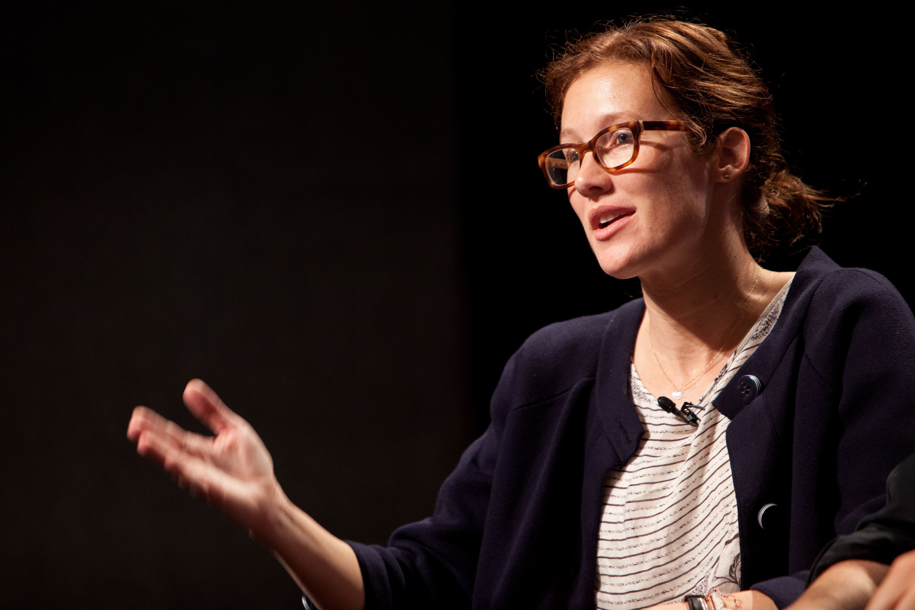 Micah Garen, Marie-Hélène Carleton, Shima'a Helmy, Kambiz Hosseini, and Saman Arbabi answer questions from the audience following Friday morning's Re:volution session at PopTech photo by Kris Krüg for PopTech